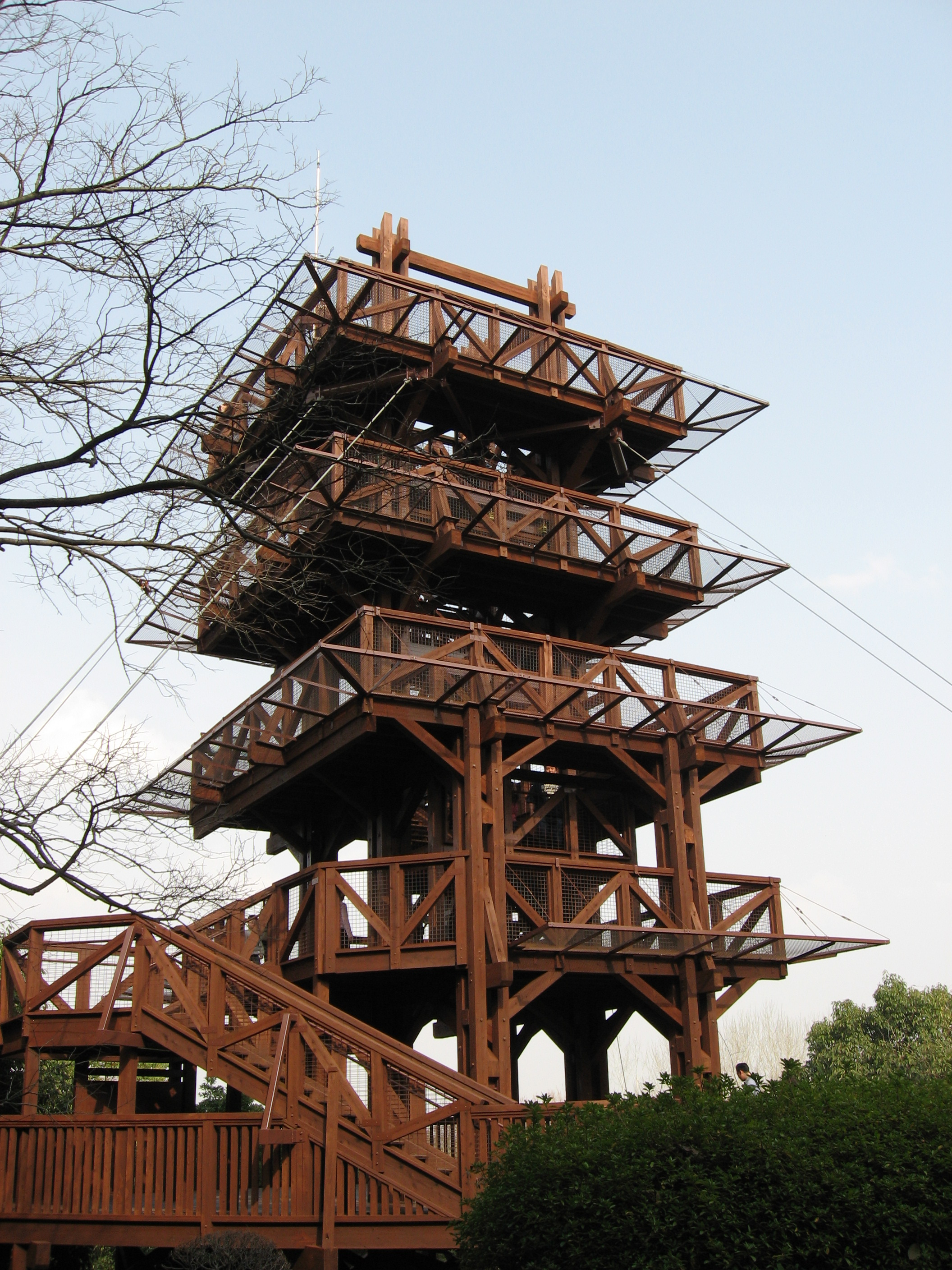 Panorama View Hill of Aerial Promenade in The Natural and Cultural Gardens, The Expo Memorial Park, Suita city, Osaka, Japan.